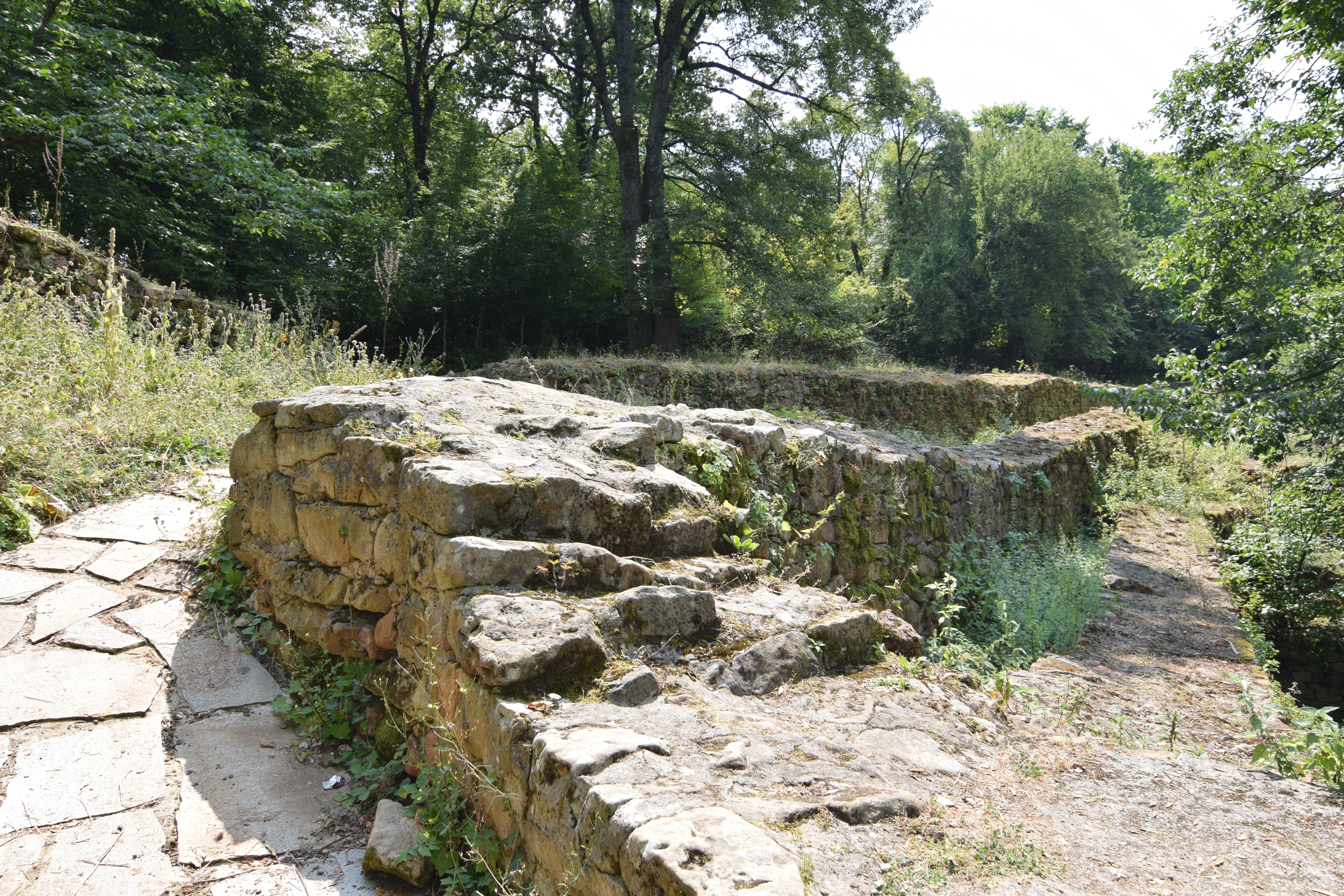 Bozhenishki Urvich is a ruined fortress on the northern slopes of Lakavishki Reed in the western Balkan Mountains at 3 km south of village Bozhenitsa and 20 km from the town of Botevgrad, Bulgaria. It is situated at 750 m a.s.l.